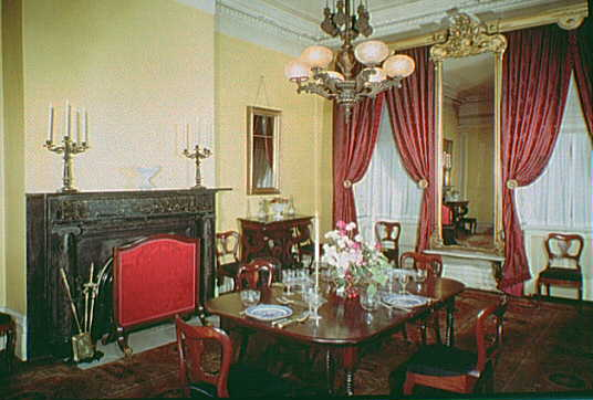 Merchant's House Museum Old Merchant's House, formerly Seabury Tredwell's residence on E. 4th St., New York City - Dining Room.